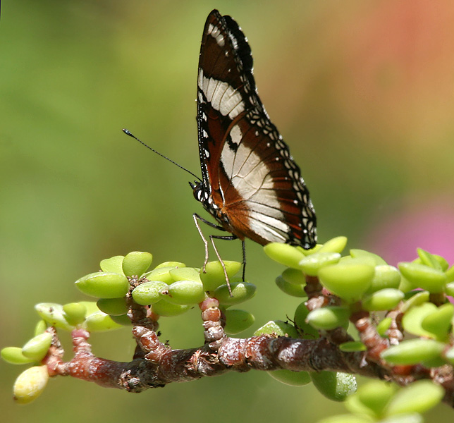 Danaid Eggfly or Mimic Hypolimnas misippus on Portulacaria afra in Hyderabad, India.